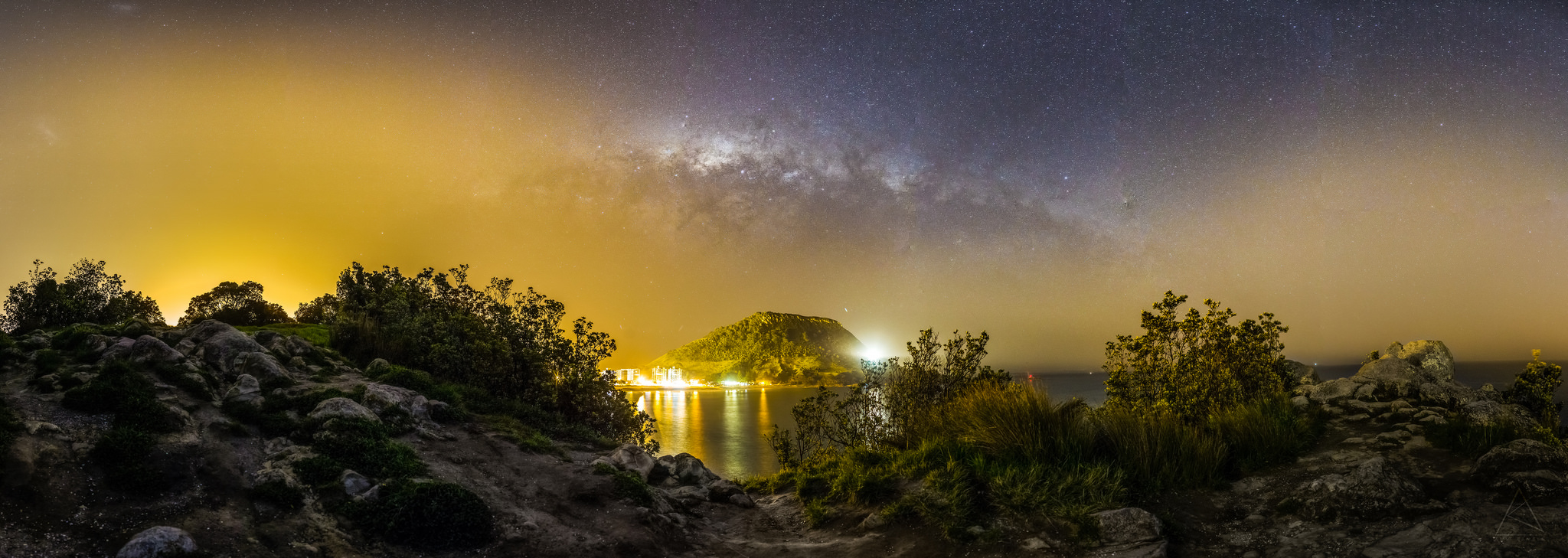 Mauao (Caught by the dawn) waits there for the people of the night to help him fulfill his desire. Rays of the sun sent back the people of night to the depths of forest and looks like they are never coming back because of the light pollution around it. This images shows how we are losing the beauty of night sky to unshilded artificial lightning. The lights that are supposed to light up the ground is also lighting up the sky. The stars in the sky around towns and cities are losing their battle to artificial lightning, if nothing is done soon, they will lose it and the future generation will never get to see the night sky and "Twinkle Twinkle Little Star" will be a poem of the past. Despite the light pollution and sea mist (which enhances the light pollution), was pretty impressed to see the milky-way going across and the Magellan clouds (Two small smudges on left top of the image) This is a 21 image panorama, stitched together in Lightroom and processed in Photoshop, processing against the light pollution is really tough.